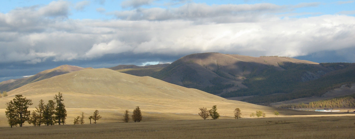 Close to Alag-Erdene sum center (it's visible at the right edge of the picture),Khövsgöl